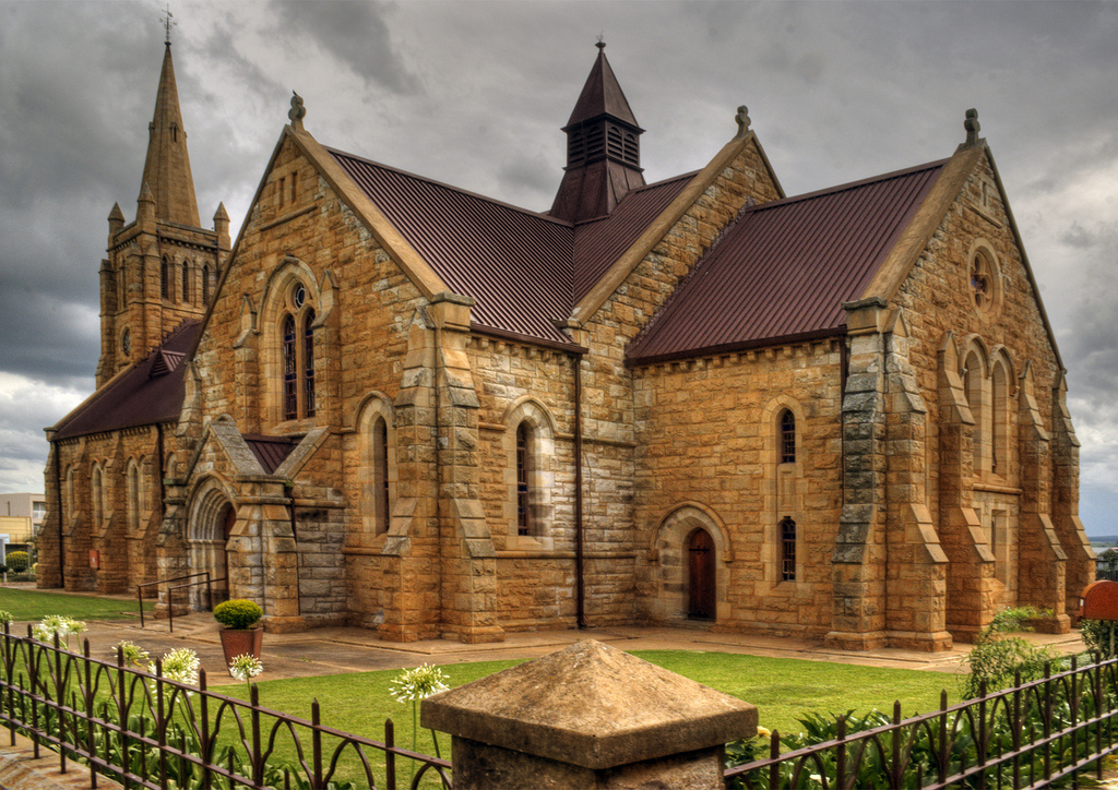 Dutch Reformed Church, Vryheid, South Africa This media shows a South African Protected Site with SAHRA file reference 9/2/448/0002.